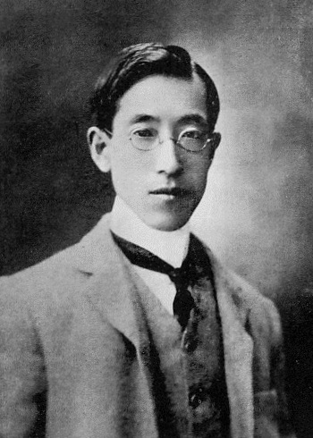 Noriaki Uesugi